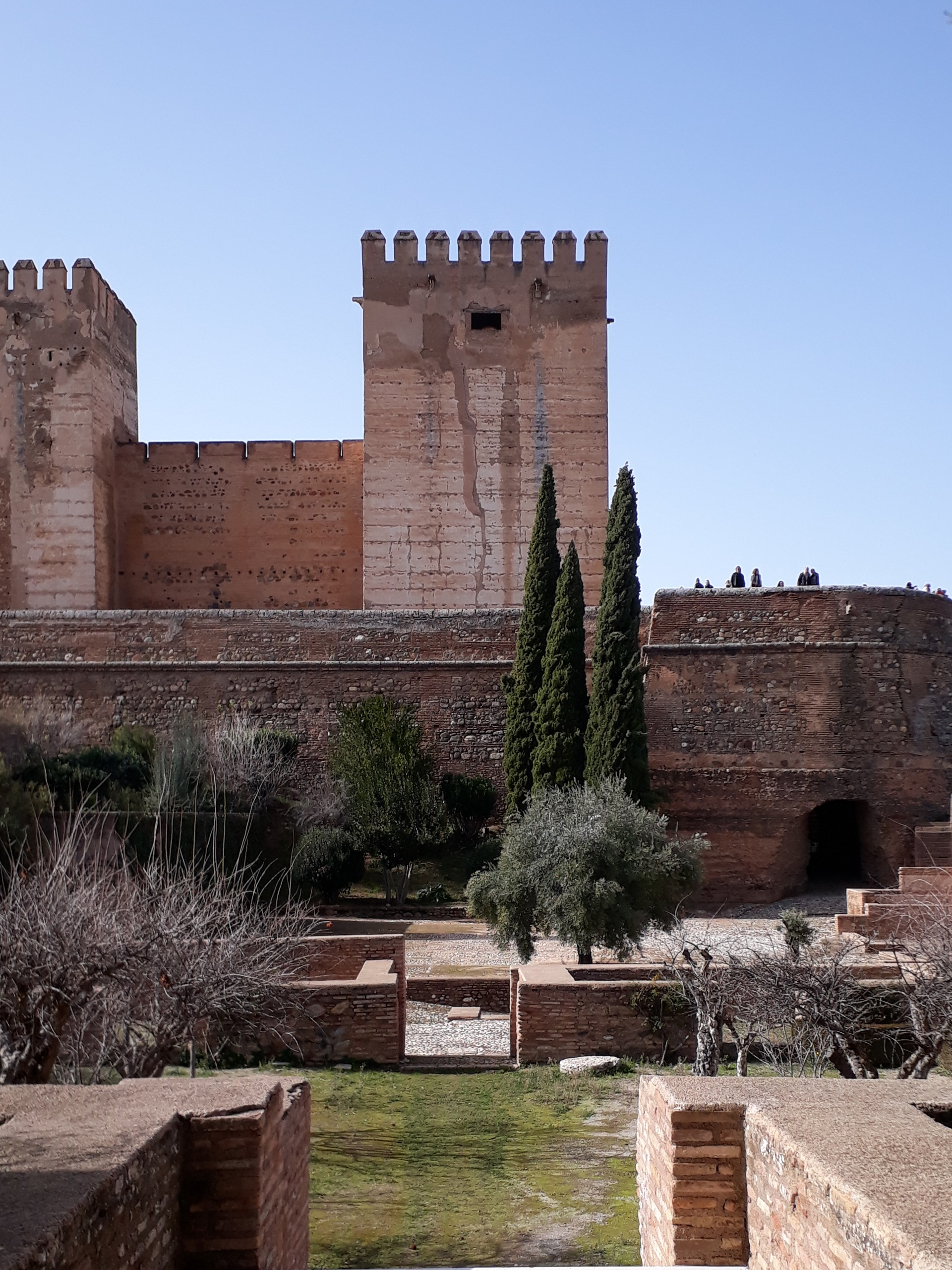 The Keep of the Alcazaba as seen from the Court of Machuca at the Alhambra complex in Granada, Spain.